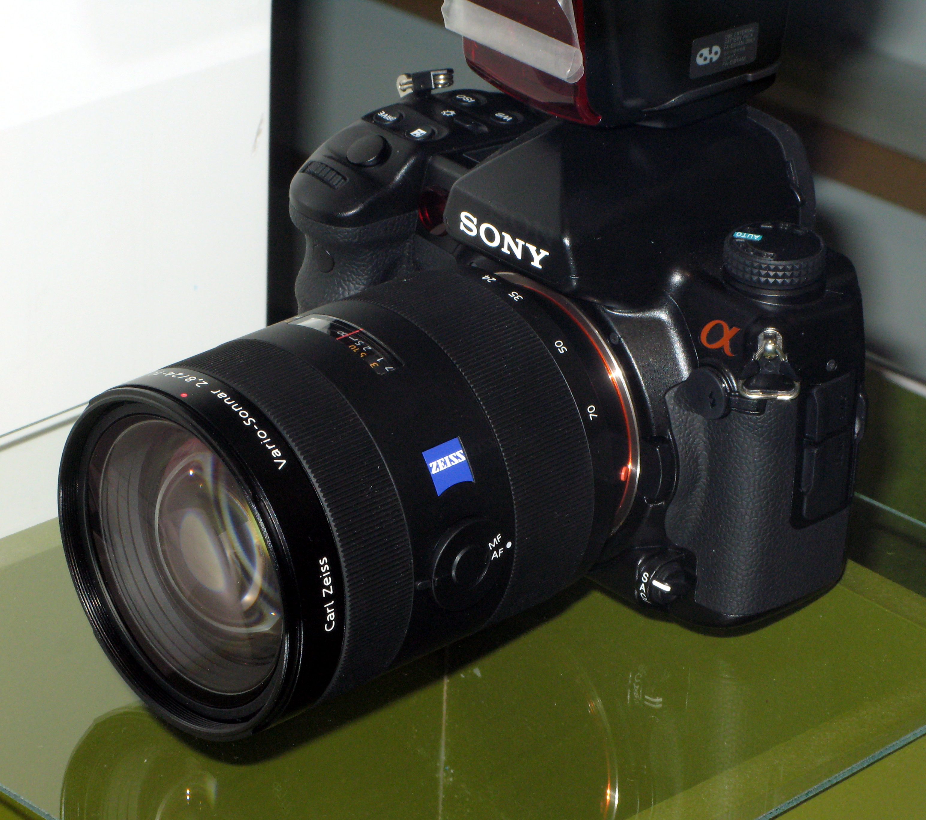 Sony α 900